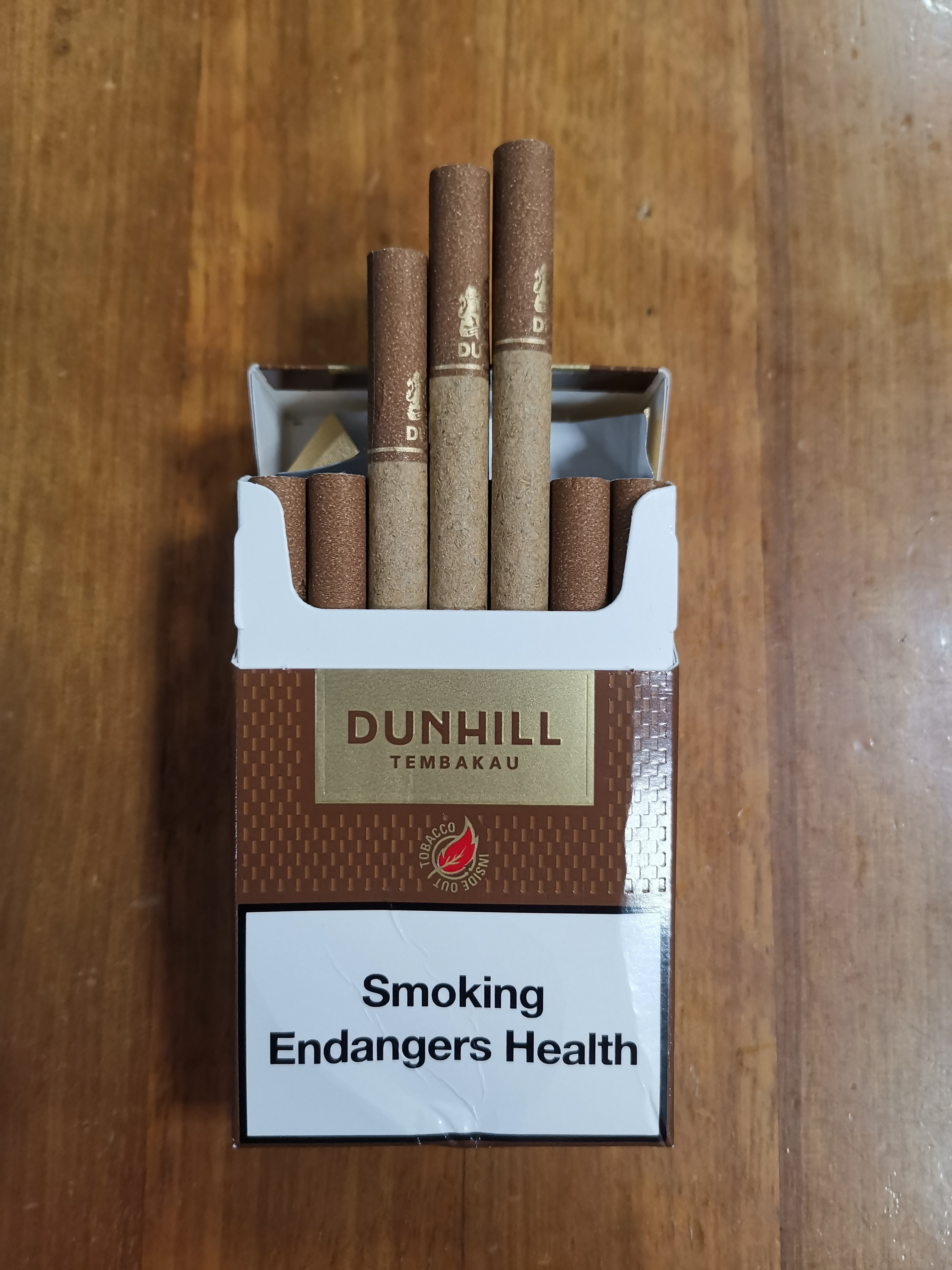 An opened pack of Dunhill Tembakau